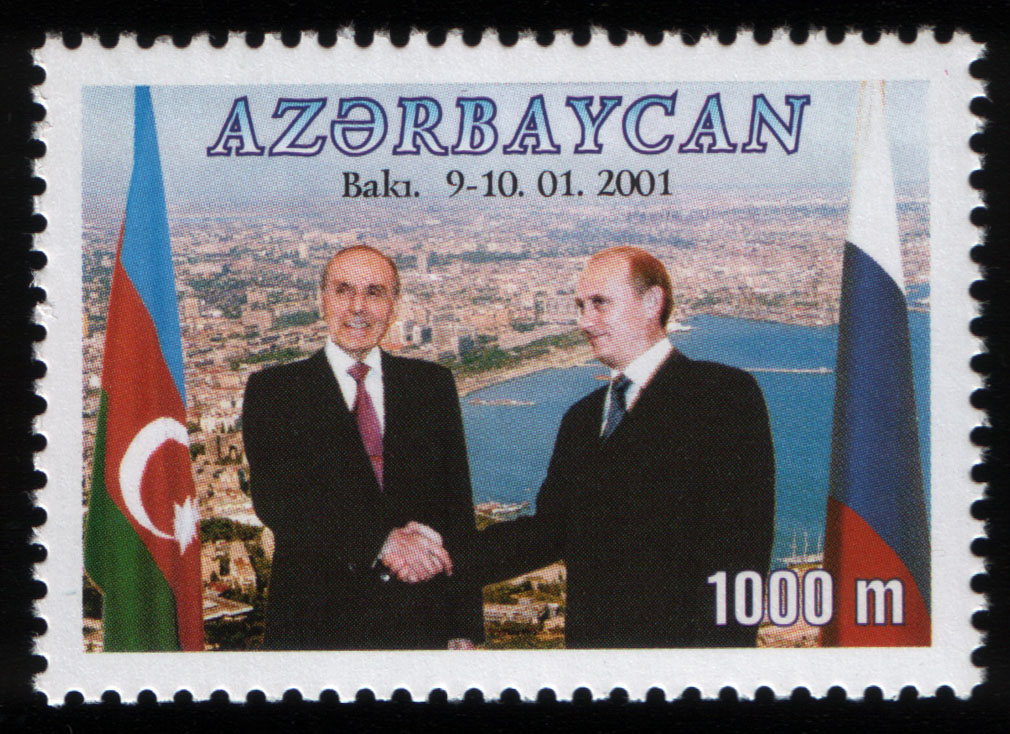 Stamp of Azerbaijan, Vladimir Putin & Heydar Aliev, 2001, 1000 m.